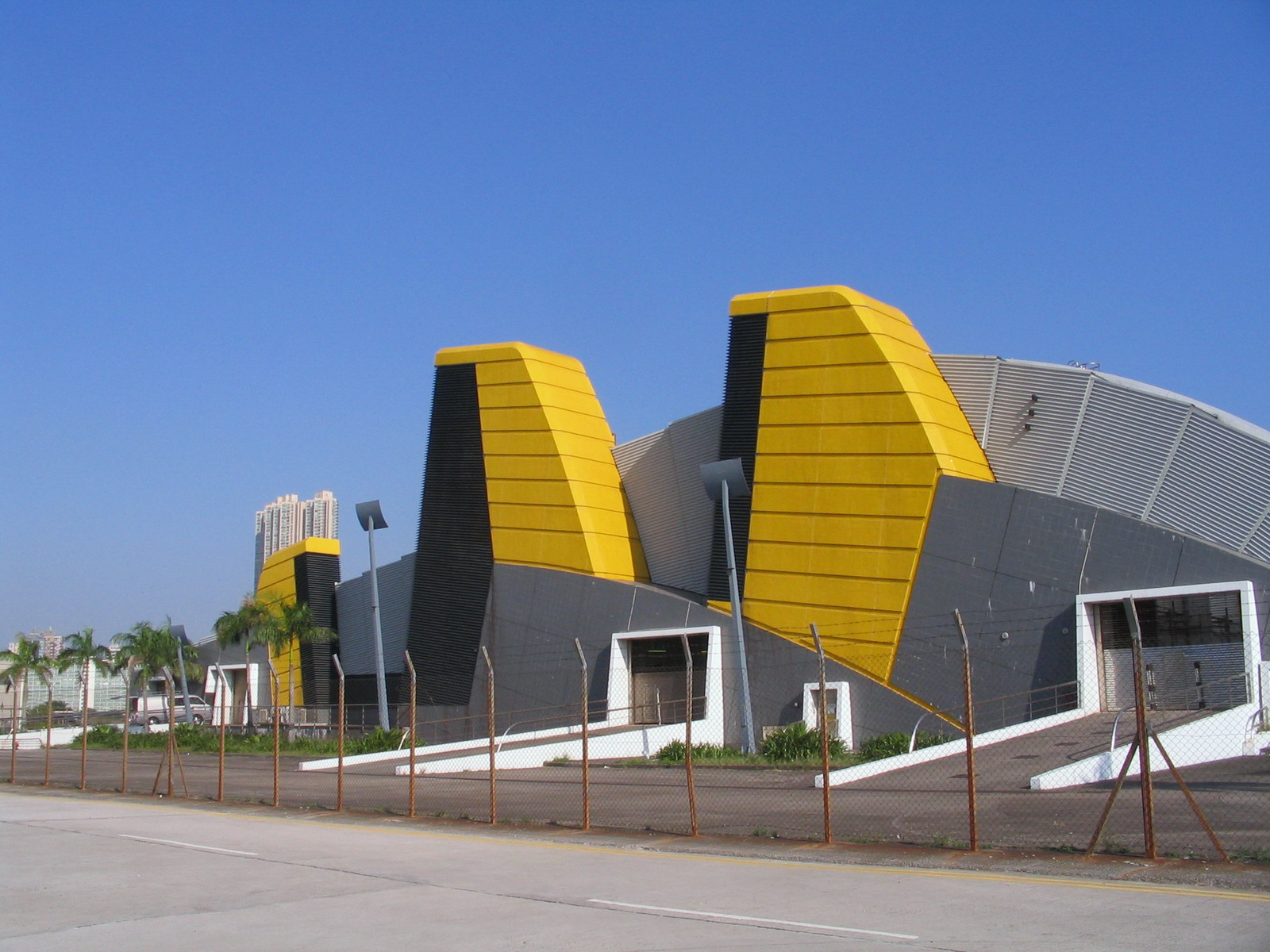 Kowloon Station Ventilation Building